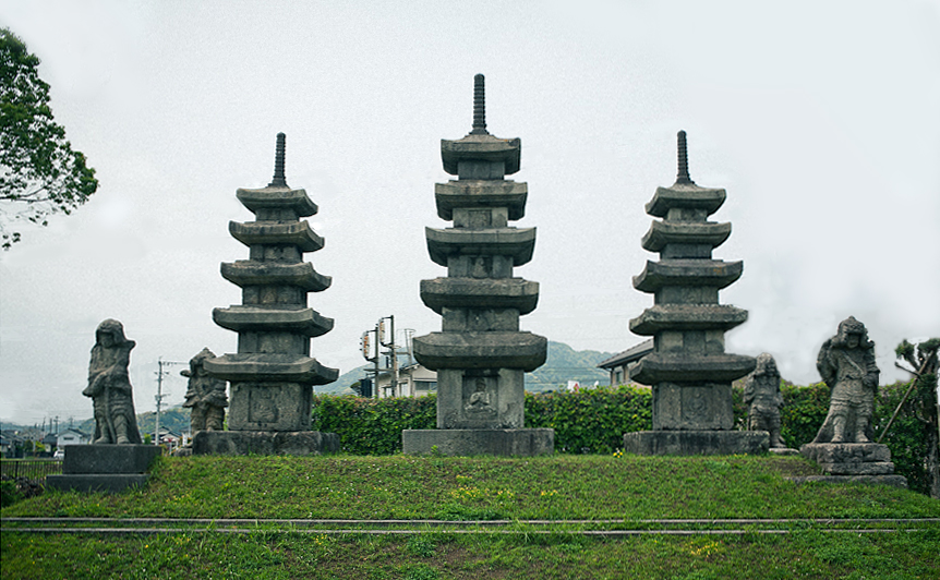 Hayato-zuka (Hayato tomb) in Hayato-chō, Kirishima, Kagoshima, Japan. Canon EOS 5D Mark II